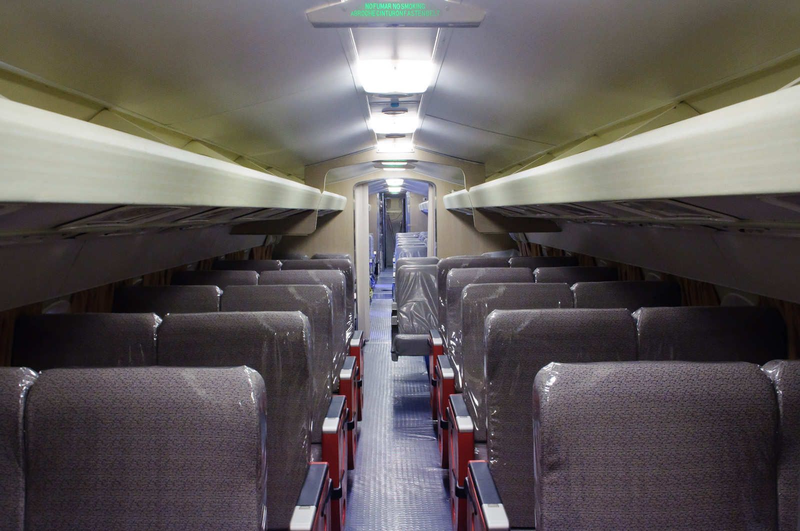 The de Havilland Comet was the first jet-powered airliner to take to the skies, though due to infamous inflight breakups early in its career (caused by square windows causing premature metal fatigue), it developed a bad reputation and sold poorly. This is the first Comet that I am ever getting to see in person. This particular example was the very first example of the ultimate Comet, the 4C. It was Mexicana's first jet aircraft, entering service on the Mexico City - Los Angeles route in 1960 and flying until 1972. Initially destined for charter use, it ended up at Paine Field in Everett in the late 1970s and sat abandoned until 1995, when Museum of Flight took ownership and has been restoring it ever since. First class, looking toward economy class. The rear lavatory and galley are under progress.